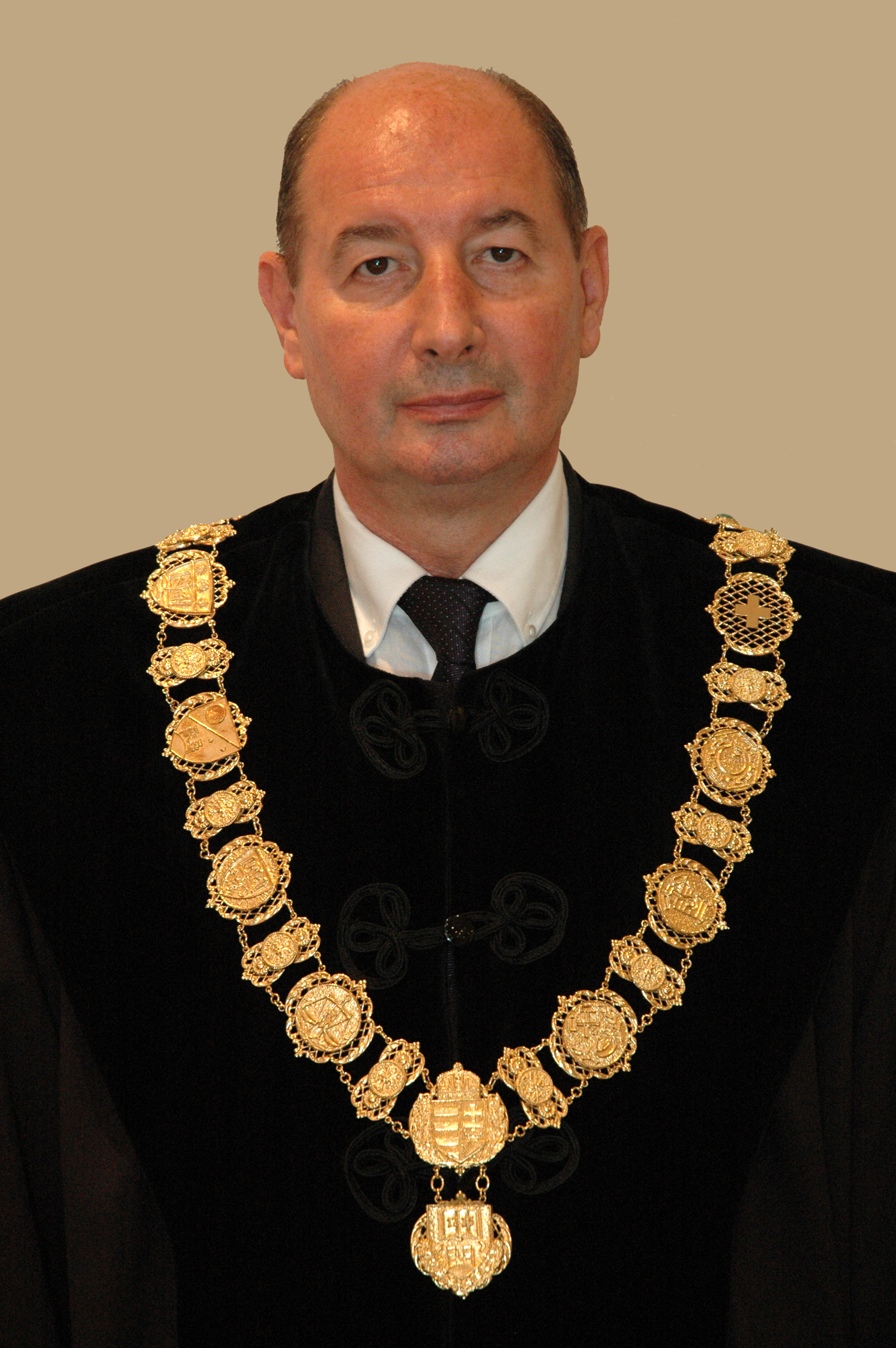 Prof. Dr. András Torma, rector of the University of Miskolc